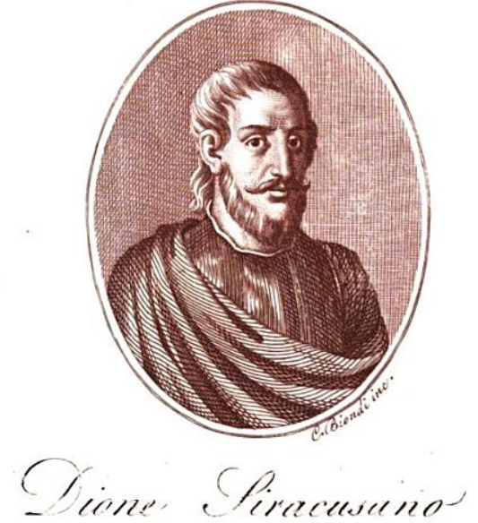 Dion of Syracuse